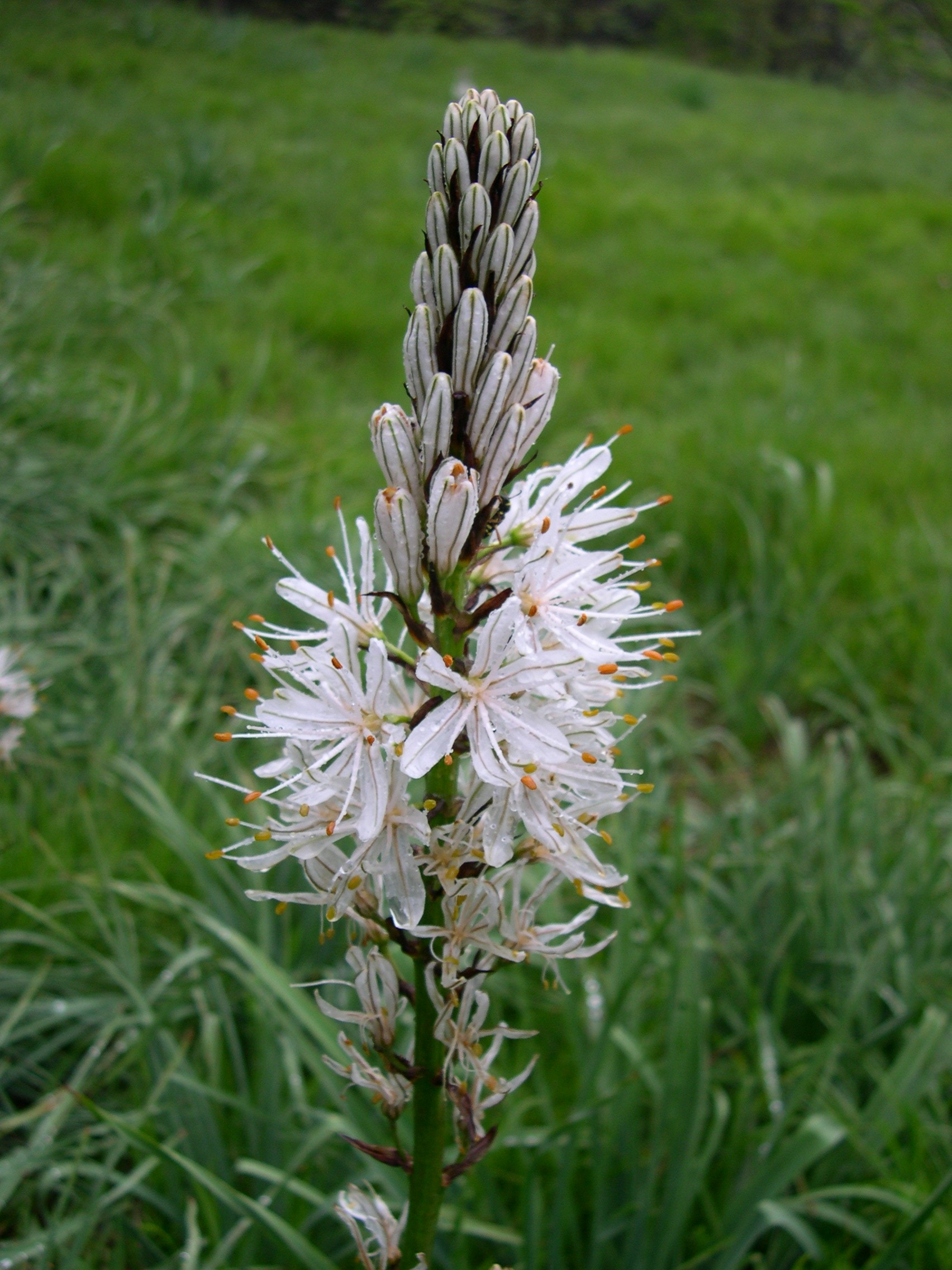 Flower of Asphodelus albus I take this picture in Capanne Superiori di.03.rolo Italy 14 may 2005.